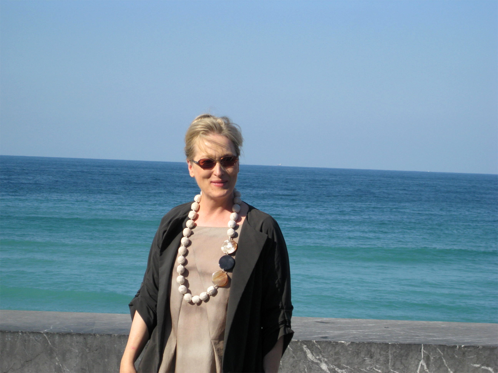 Meryl Streep on the 56th International Film Festival in San Sebastian (Spain)